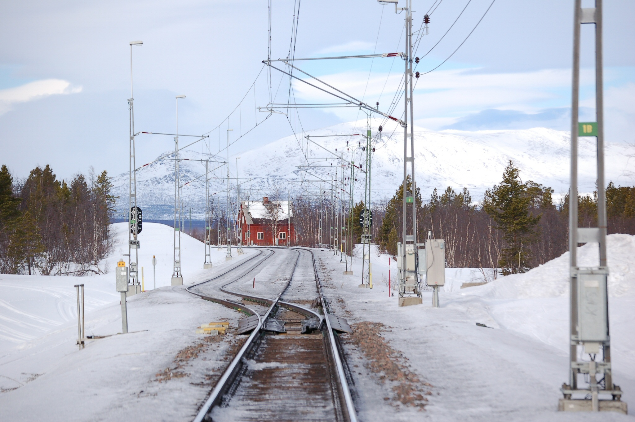 Crossing loop (passing siding) of Rautas station along the Malmbanan in Sweden, north from Kiruna.